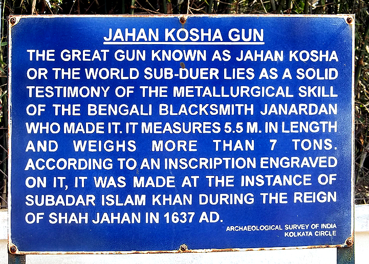 Jahan Kosha Cannon Murshidabad